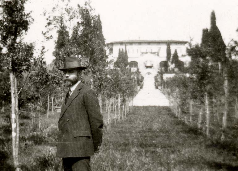 Bernard Berenson in the gardens of Villa I Tatti.